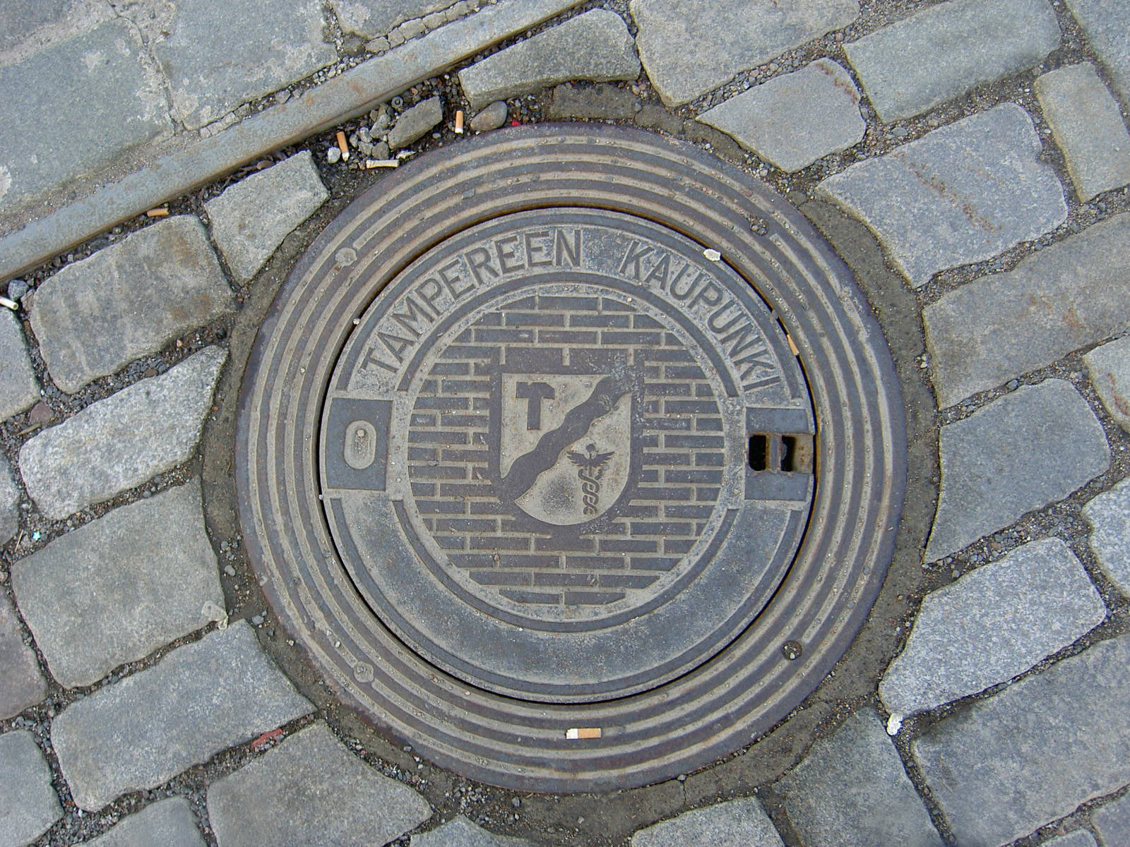 A manhole cover, Tampere, Finland.